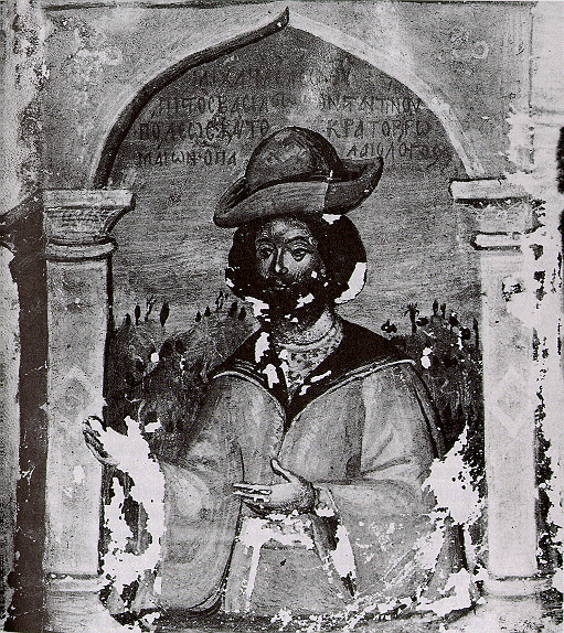 Portrait of Michael VIII Palaiologos St Catherine's Monastery, Mount Sinai, MS Sinait. gr. 2123, f. 30r